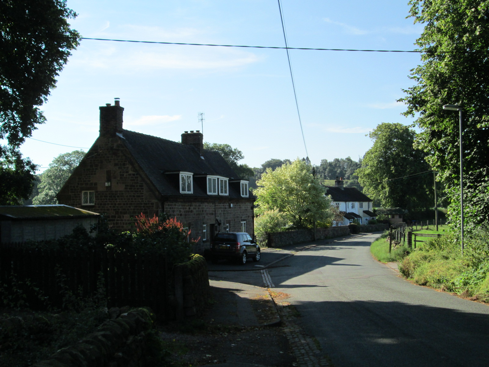 Abbey Green, a short distance north of Leek. Looking south along the village.